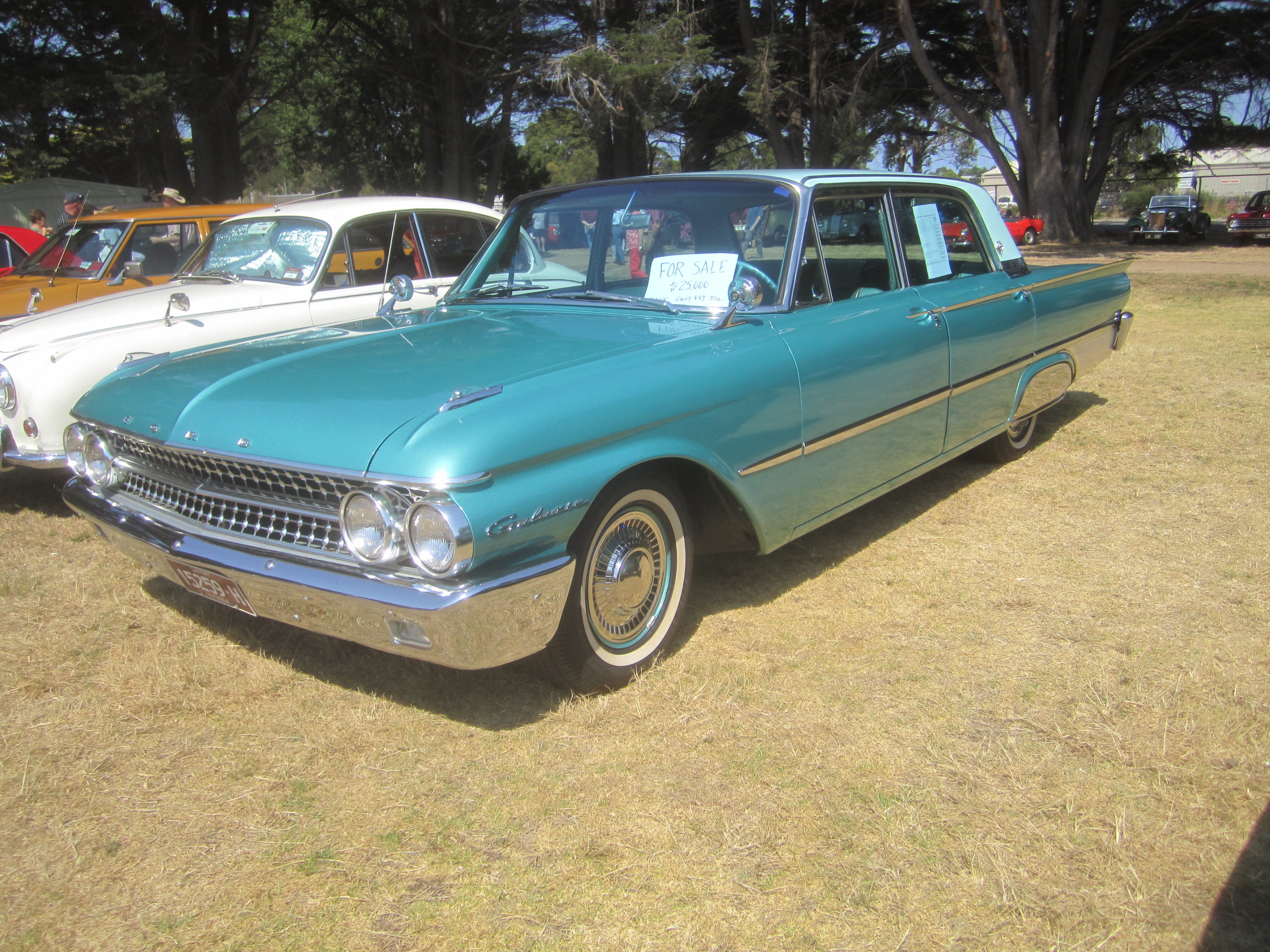 1961 Ford Galaxie Town Sedan in Garden Turquoise.